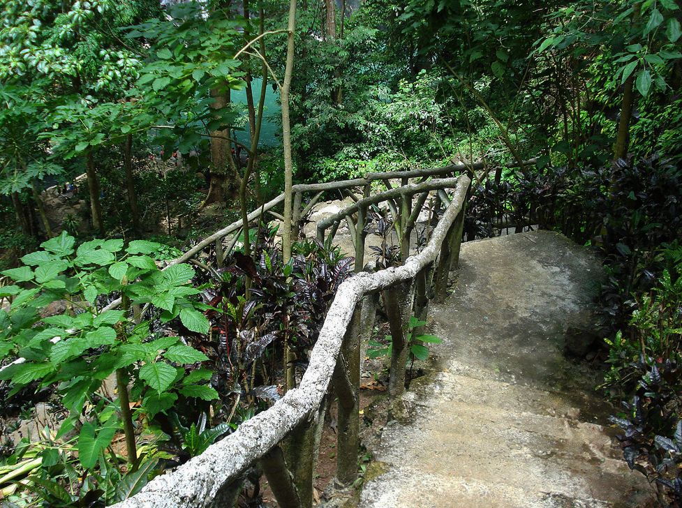 Trekking to the falls requires approximately 500 descending steps called the winding staircase.